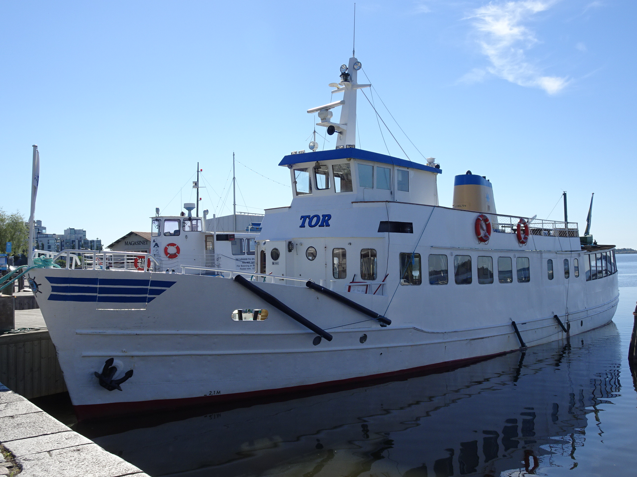 Passenger ship M/S Tor, for boat trips on lake Mälaren, in Hjälmare canal and on lake Hjälmaren starting from Västerås, Kungsör, Arboga, Torshälla and Örebro, Sweden. She was built 1915 in Gothenburg, rebuilt to passenger ship in the 20s. She belongs to rederiaktiebolaget Mälartrafik M/S TOR in Arboga.